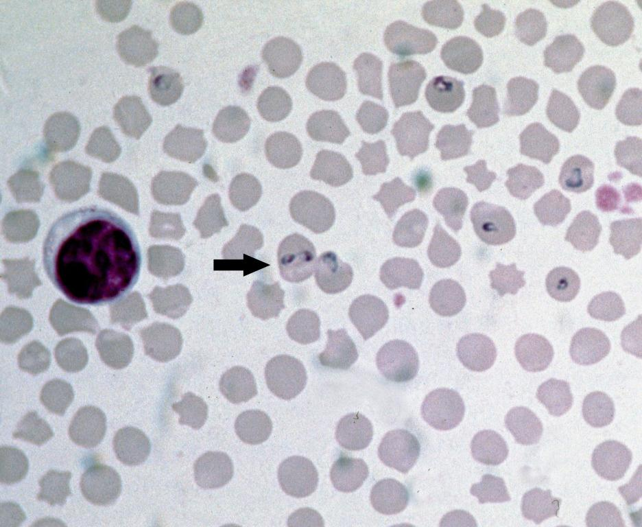 Babesia bovis piroplasm stage infecting red blood cells of a cow.